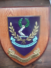 Photograph of the University College, London Crest which I own